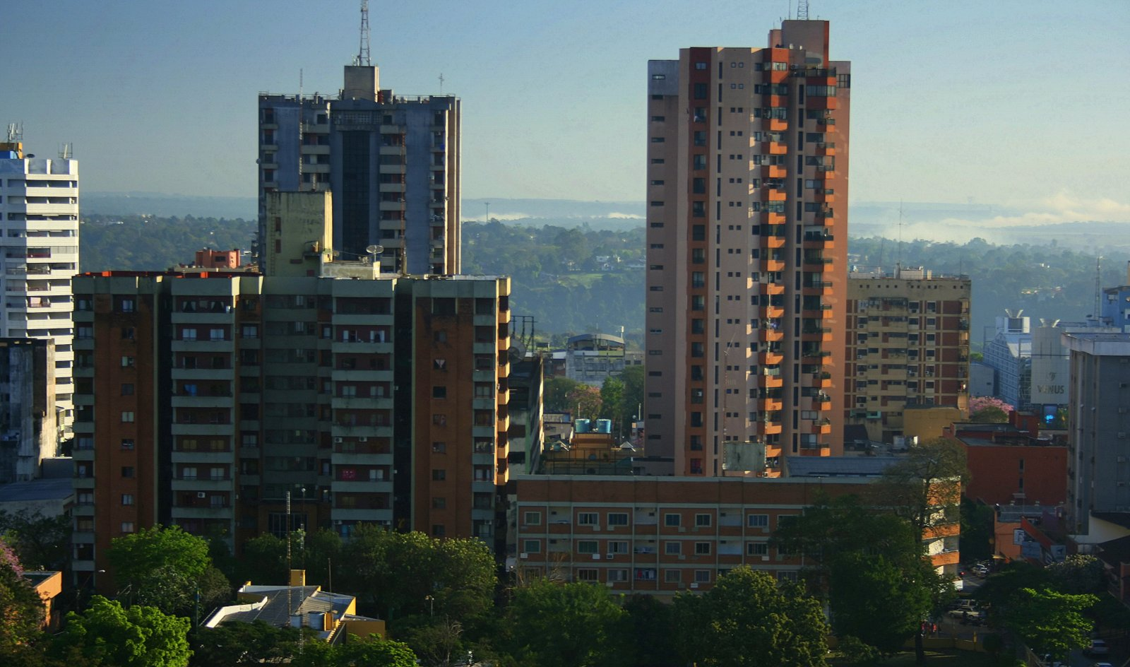 Buildings in downtown Ciudad del Este.